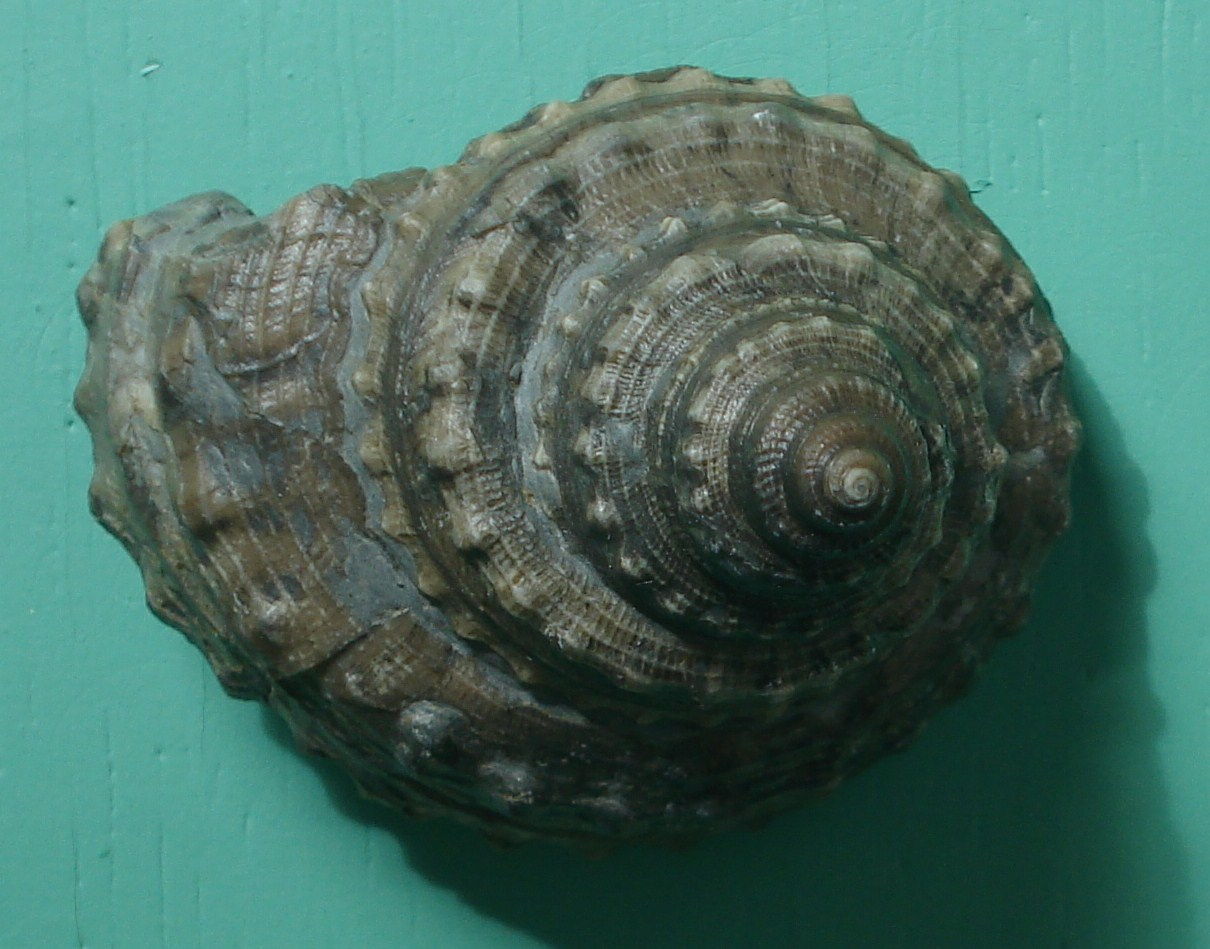 fossil of pleurotomaria